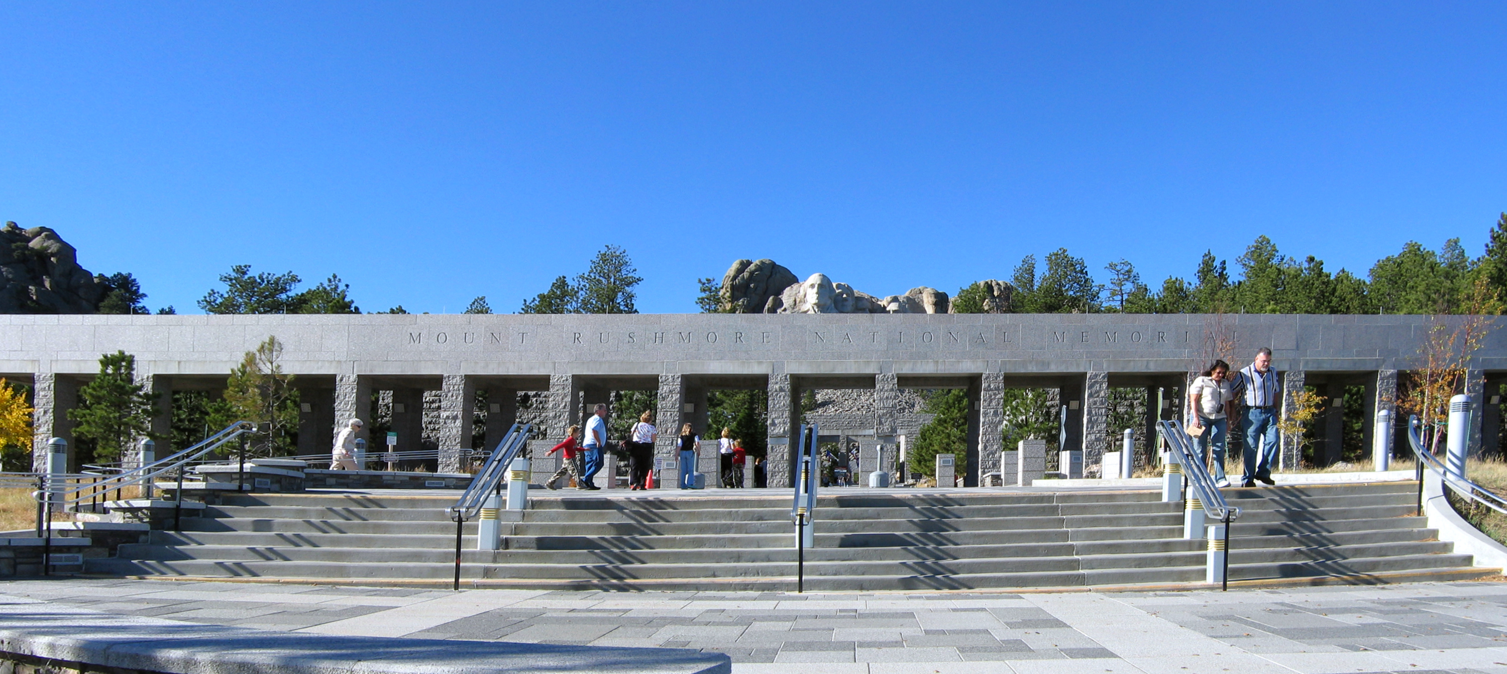 Photo of the memorial entrance, which was taken upon visiting Mt. Rushmore October, 2007.